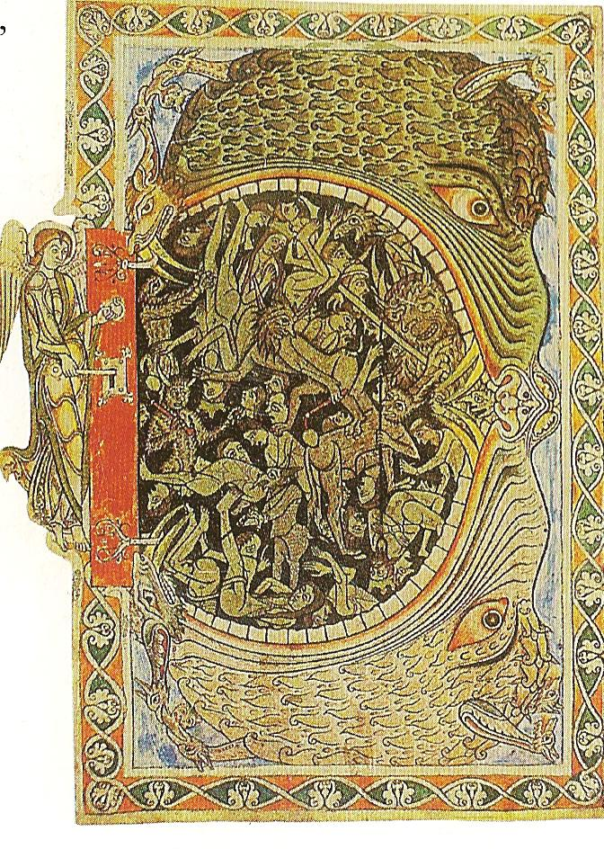 An angel locking the gates of Hell with a key, miniature from the Winchester Psalter, British Library, London